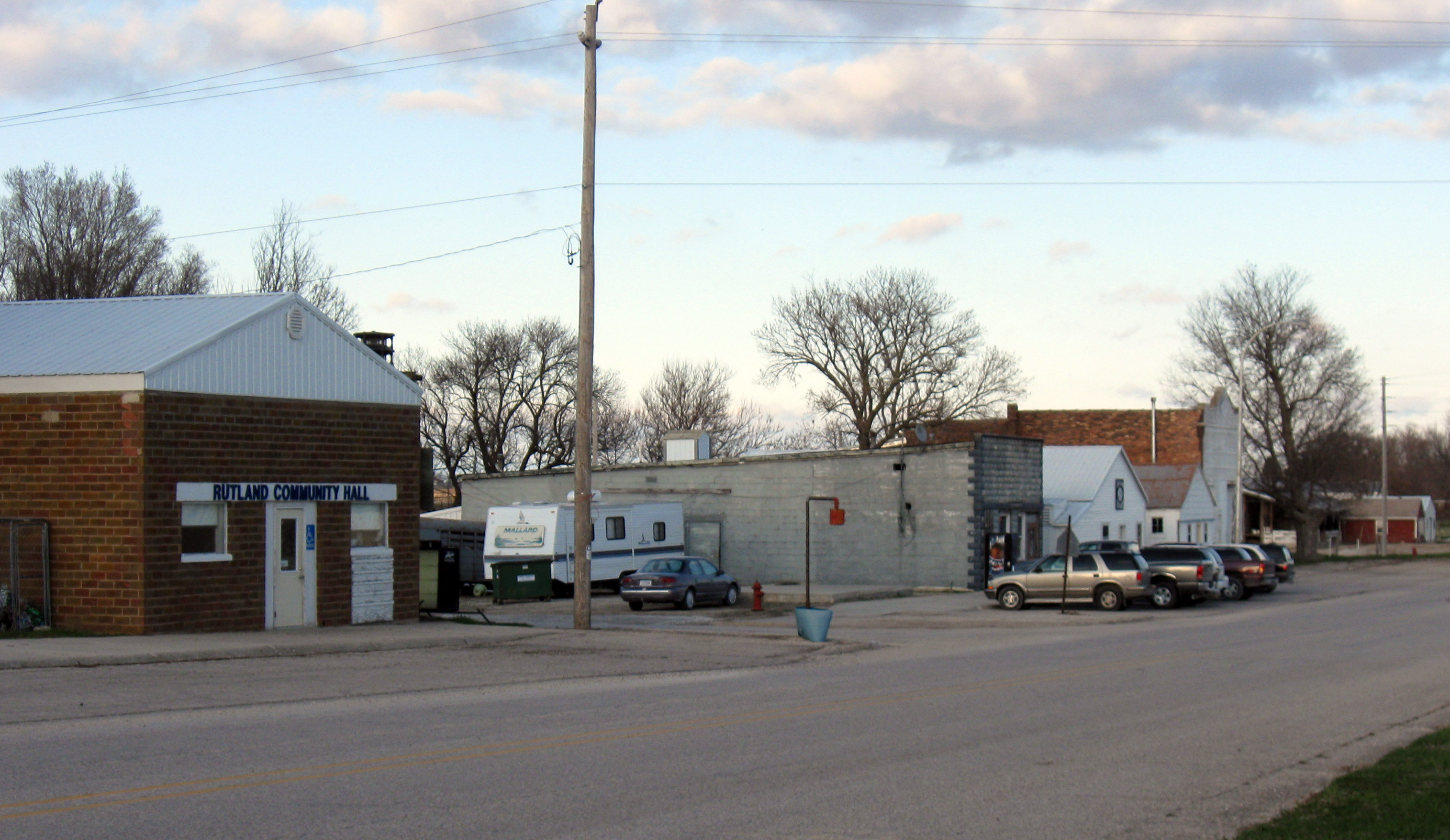 Rutland, Iowa Bill Whittaker (talk) 13:27, 23 April 2009 (UTC)